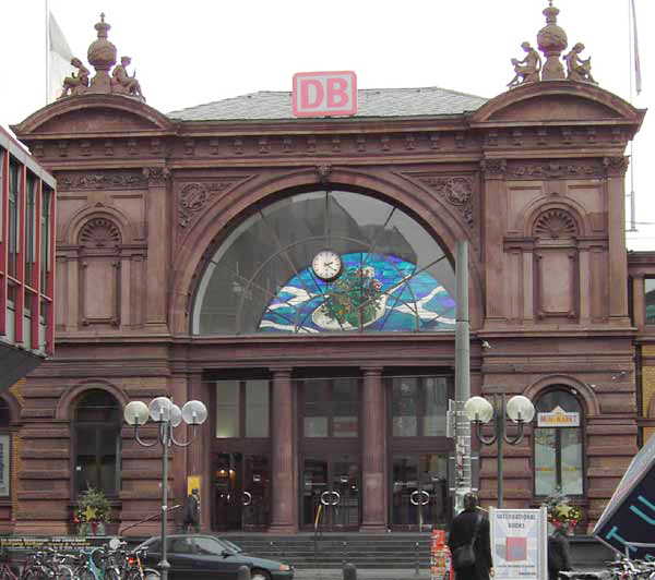 Main entrance to the Bonner main station.